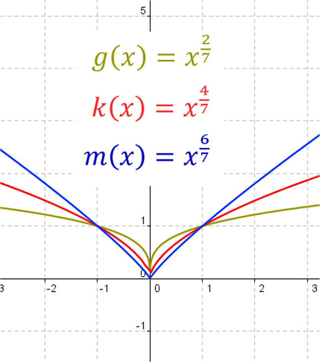 All even roots of 7